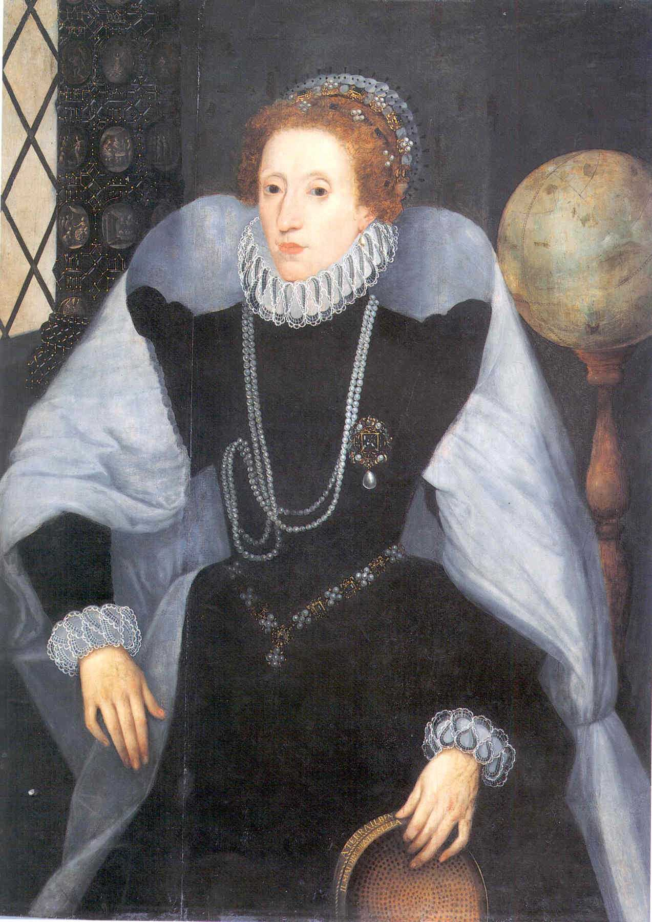 Sieve Portrait of Queen Elizabeth I, c.1583 After Quentin Massys the Younger Private Collection (Collection of the Duke of Hamilton)